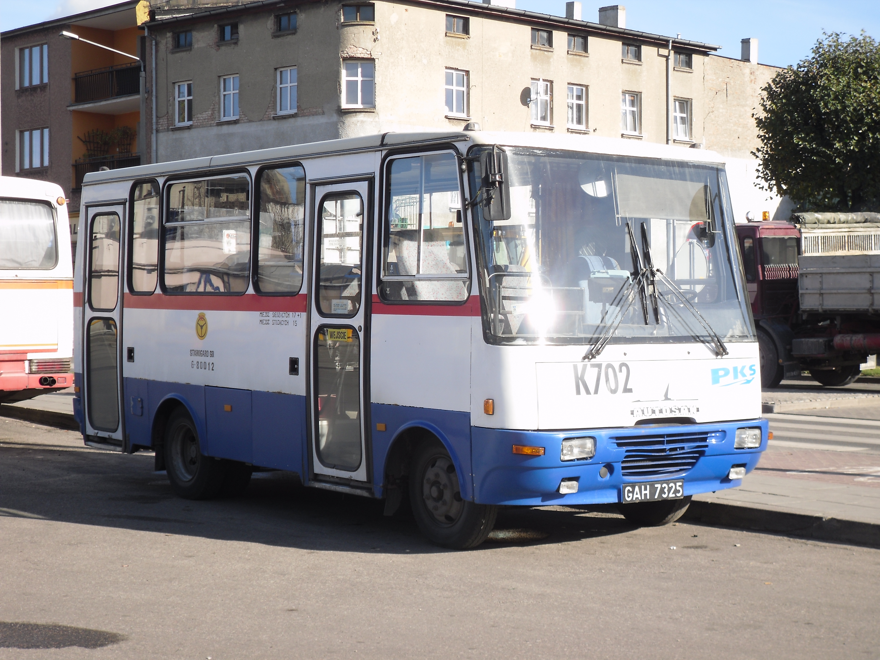 Autosan H6-20.03 bus (#K702) in Kościerzyna, Poland. Built 1998, PKS Starogard Gdański operator.